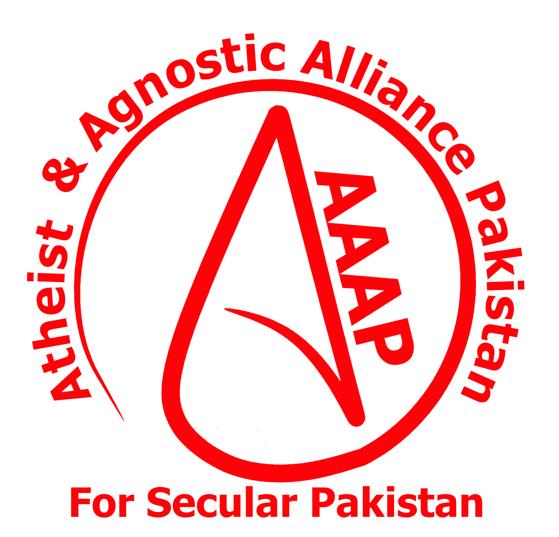 Fauza Ilyas is Founder of Atheist & Agnostic Alliance Pakistan.